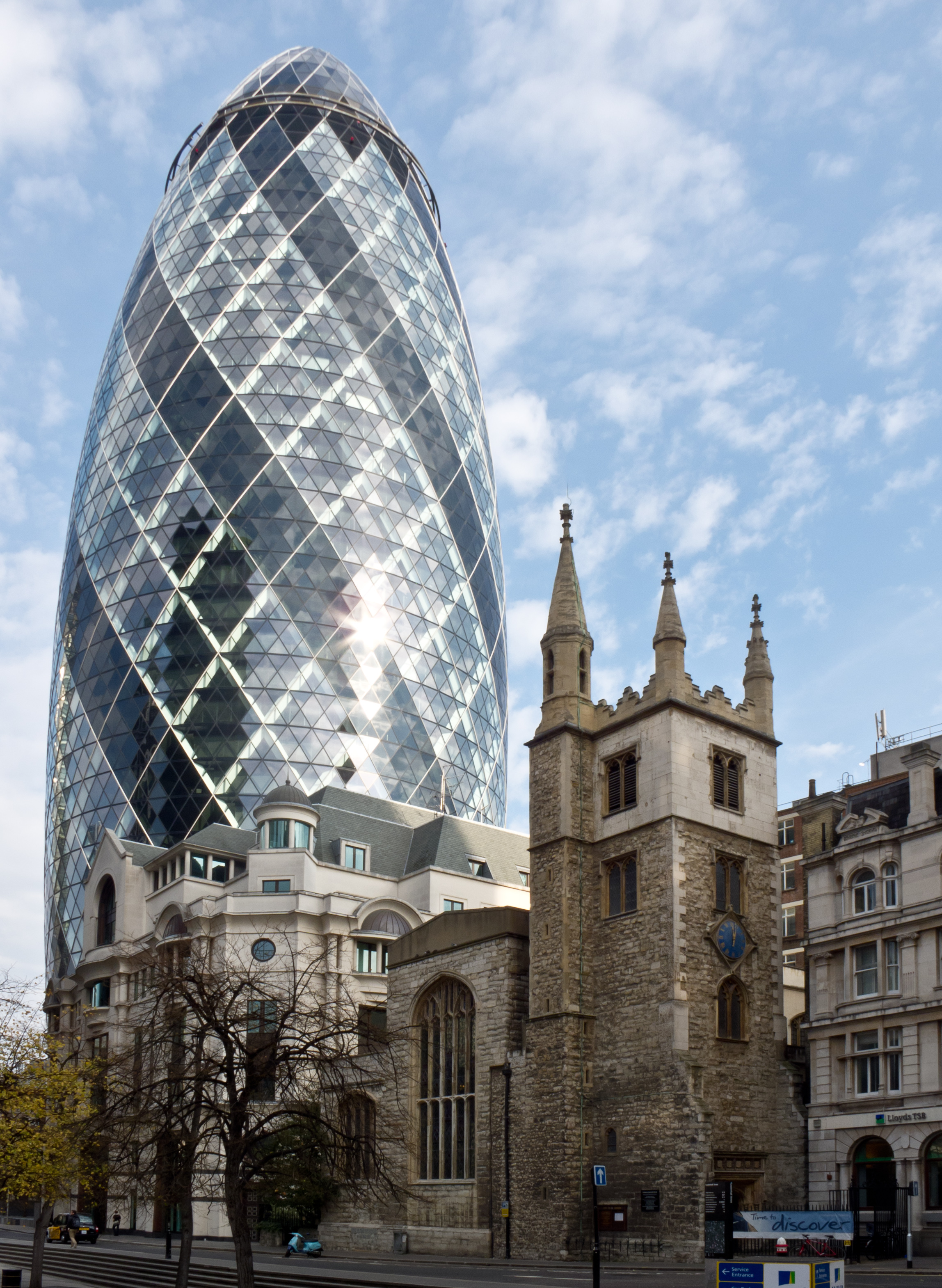 30 St Mary Axe (Swiss Re Building) and St Andrew Undershaft church, London, England